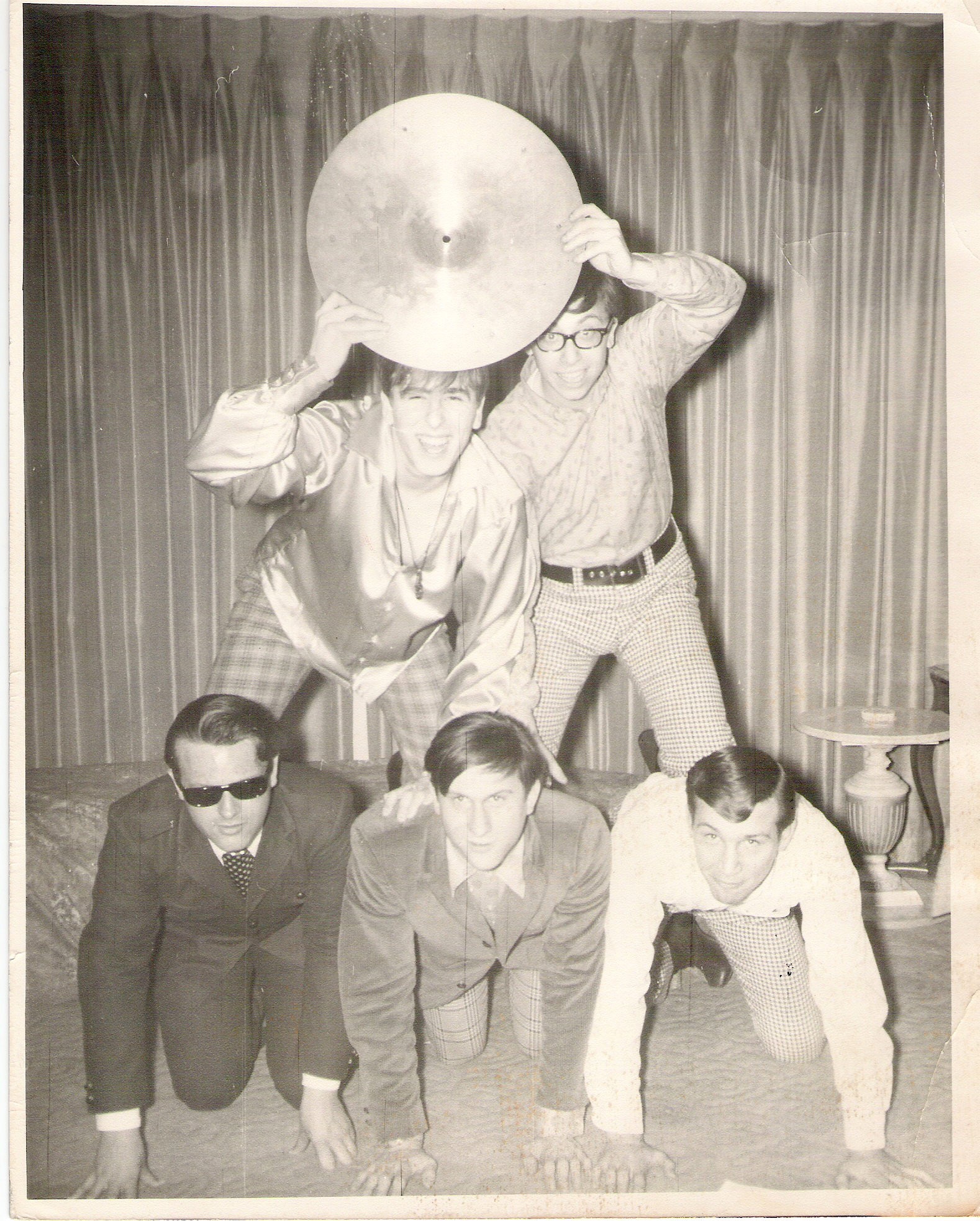 This photo is of the 5 original members of the 1910 Fruitgum Company taken in 1966 at the home of Floyd Marcus. Photo shows Floyd Marcus and Steve Mortkowitz on the top, Pat Karwin, Frank Jeckell and Mark Gutkowski on the bottom.